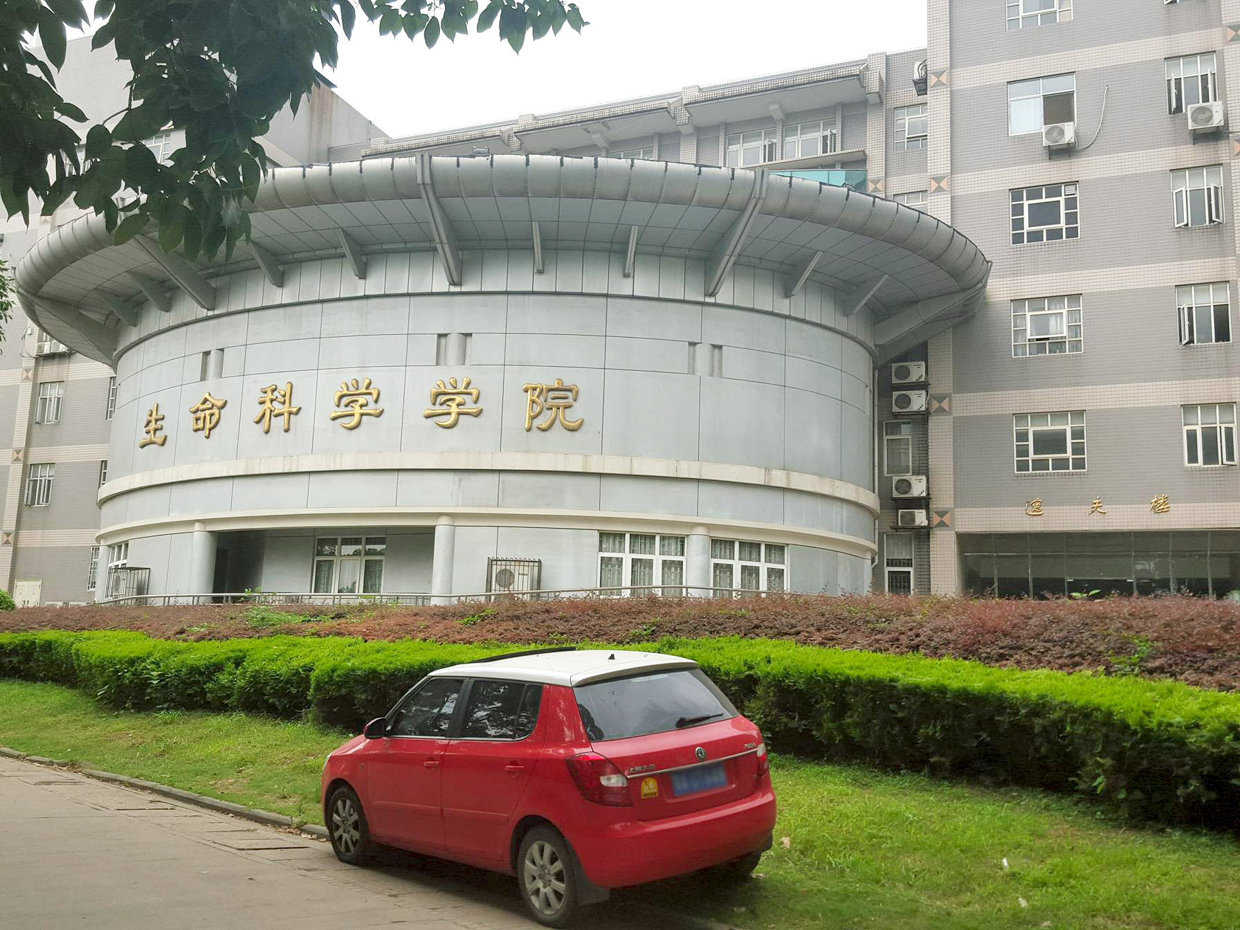 College of Life Sciences at Wuhan University